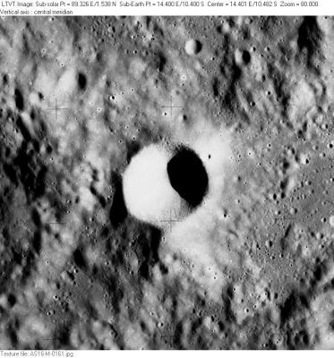 Image AS16-M-0161